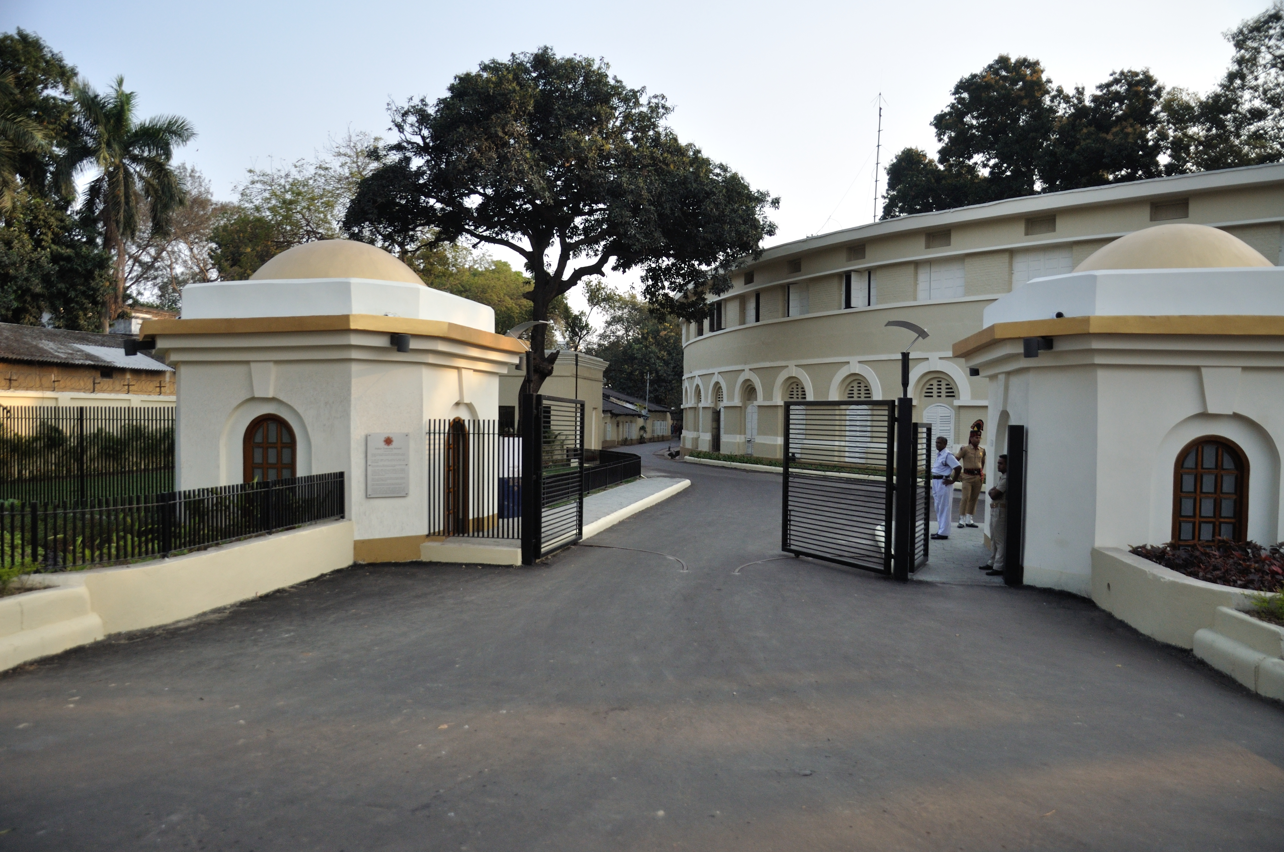 The Dalanda House. Police Training School (PTS). Kolkata.